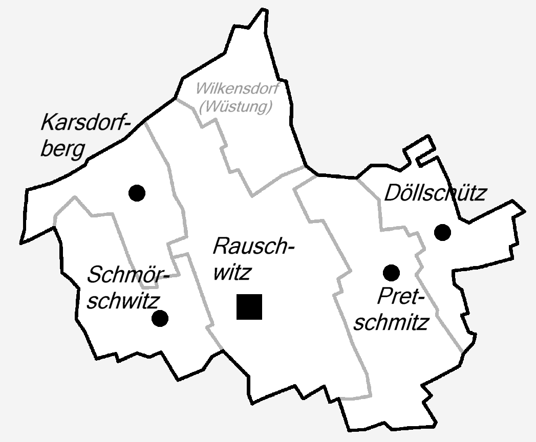 District-Map of Rauschwitz.